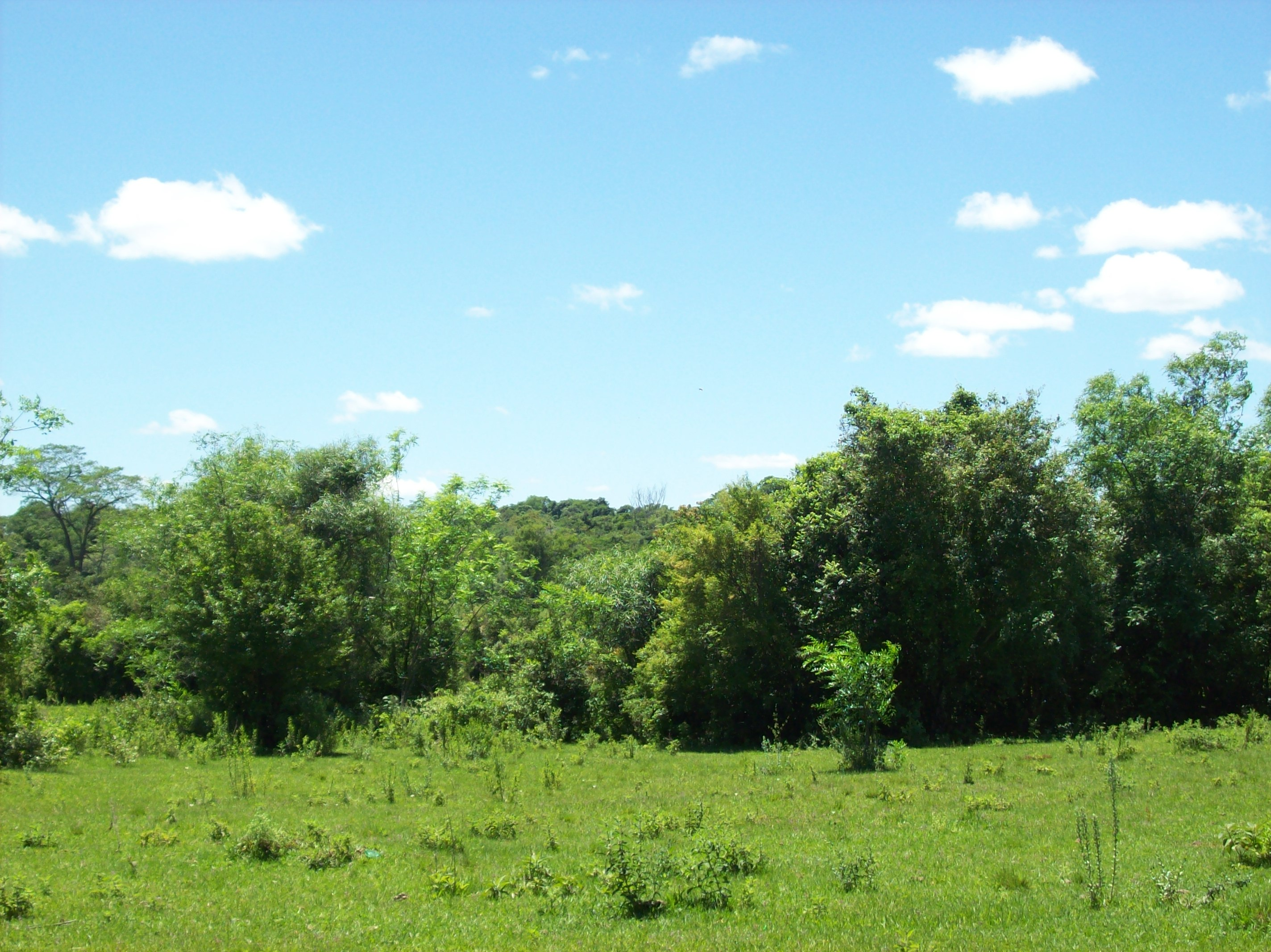 Bosque Artigueño